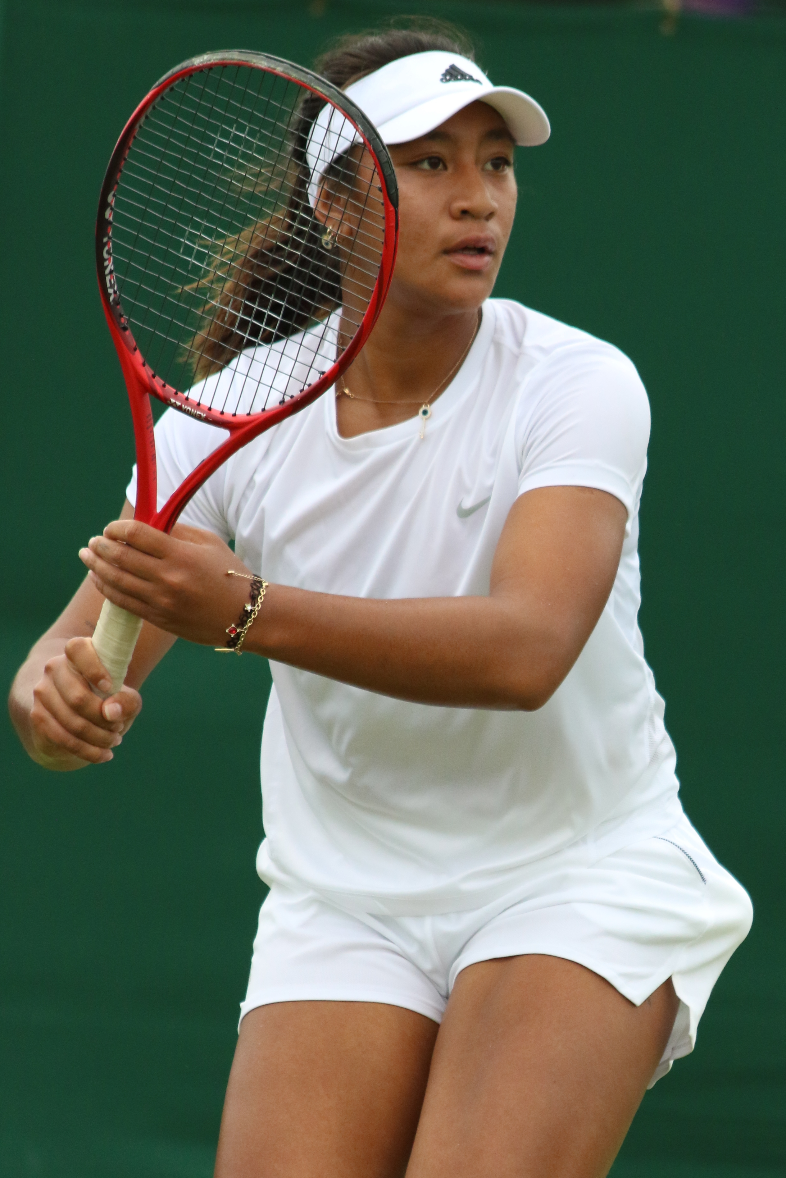 2019 Wimbledon Qualifying Tournament.